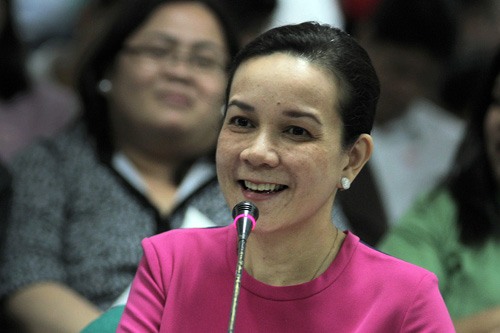 Grace Poe-Llamanzares, chairman of the Movie and Television Review and Classification Board, at a budget hearing of the Senate of the Philippines. The official description is as follows: “MTRCB BUDGET HEARING: Movie and Television Review and Classification Board (MTRCB) chairperson Mary Grace Poe-Llamanzares leads the presentation of the MTRCB's proposed budget for the year 2013 during a public hearing chaired by Sen. Edgardo Angara Tuesday, September 25, 2012. (PRIB Photo by Joseph Vidal)”